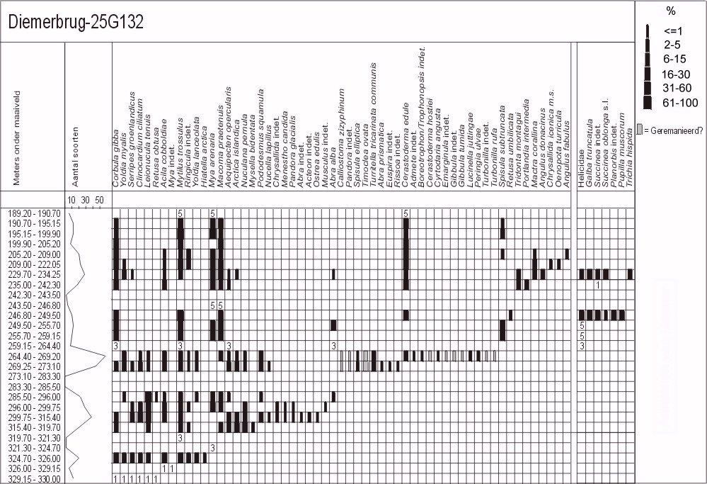 range chart of fossil mollusc species in Pleistocene deposits in borehole Diemerbrug (Netherlands)